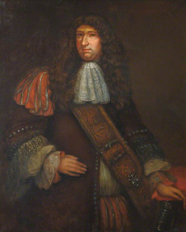 Portrait of a Man, probably Sir George Downing, 1st Baronet (1623–1684)